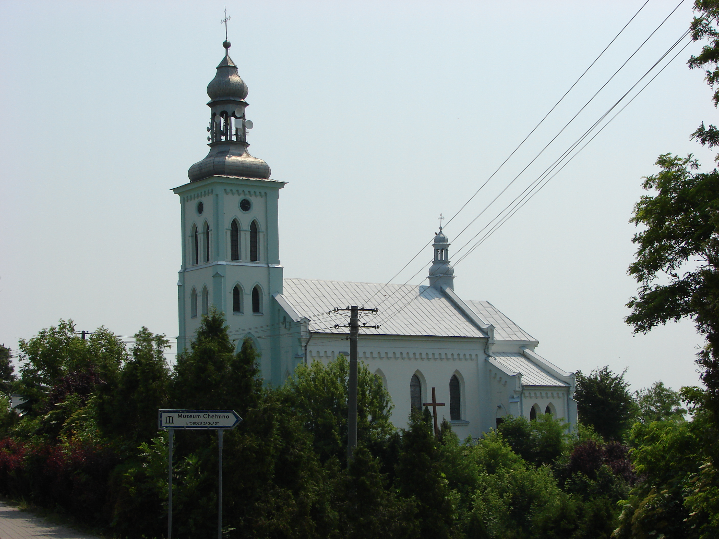 Chełmno, Gmina Dąbie, Koło County, Poland. Parish church of Virgin Mary, built 1875.